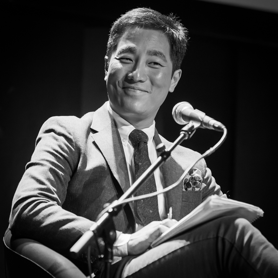 Fredrik Solvang moderates a debate at Cosmopolite in Oslo in 2015.